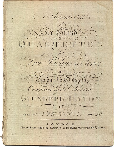 Title page of an edition of the string quartets opus 20 by Franz Joseph Haydn, published by Preston, London, 1782.